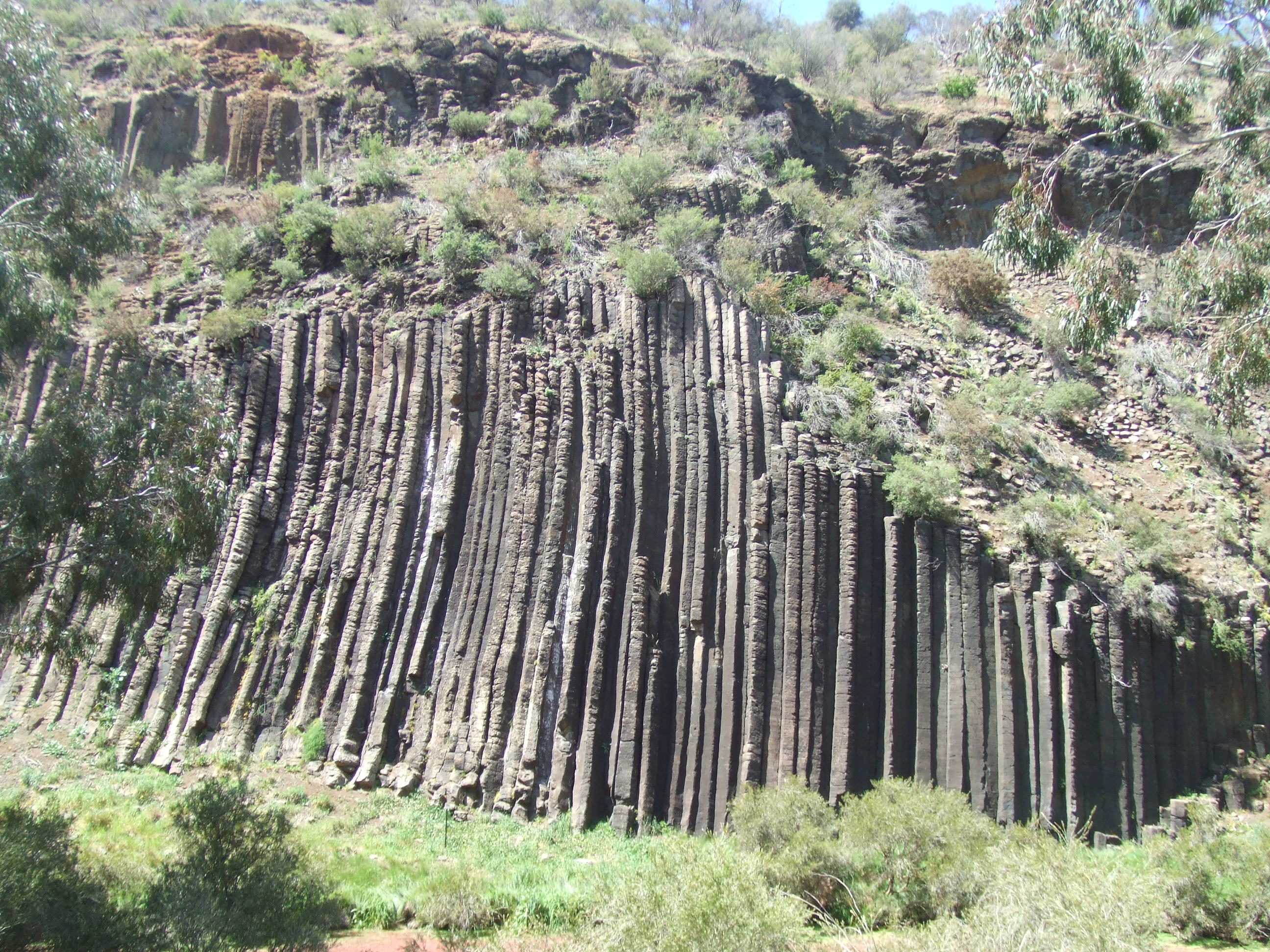 The Organ Pipes, Victoria, Australia. Photo taken by myself in late 2009.